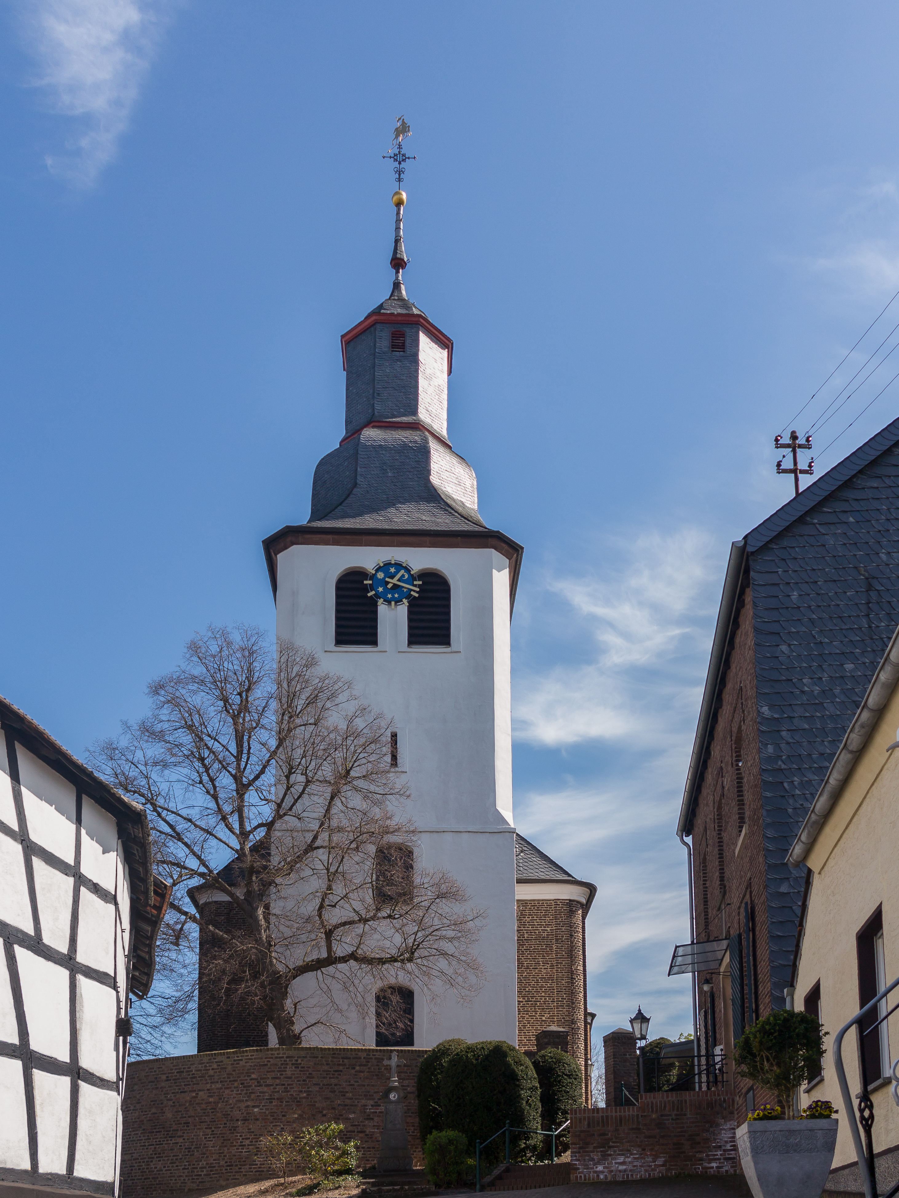 Weilerswist, cathlic church: Pfarrkirche Sankt Mauritius This is a photograph of an architectural monument., no. 87